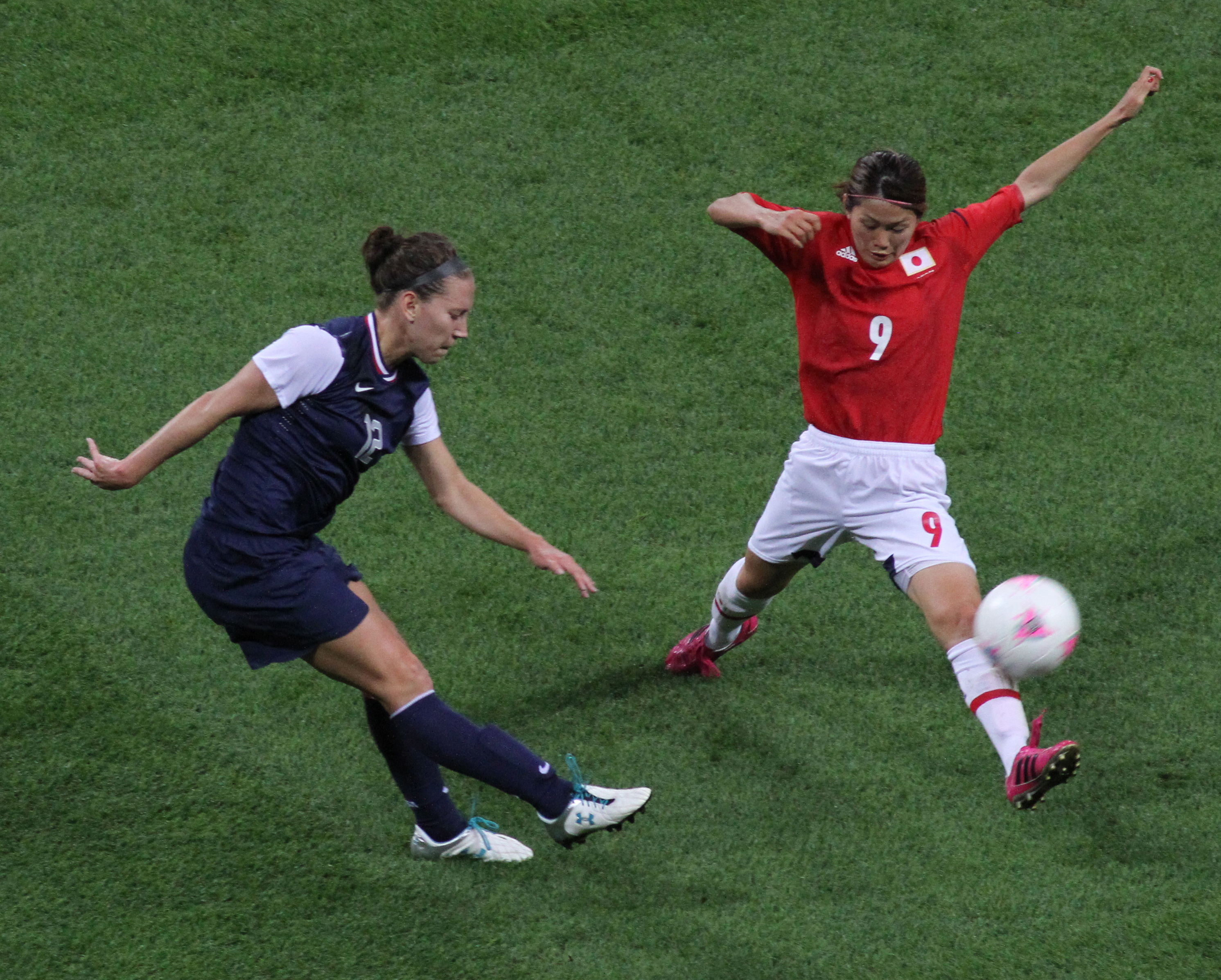 Lauren Cheney of the United States (left) and Nahomi Kawasumi of Japan.